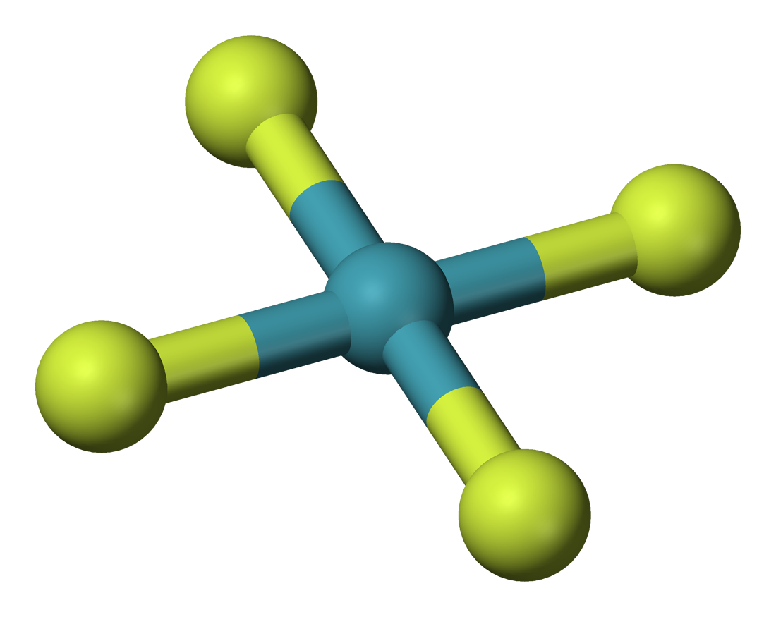 Ball-and-stick model of the xenon difluoride molecule, (XeF2). Colour code: Xenon, Xe: turquoise Fluorine, F: lime-green Image generated in Accelrys DS Visualizer.